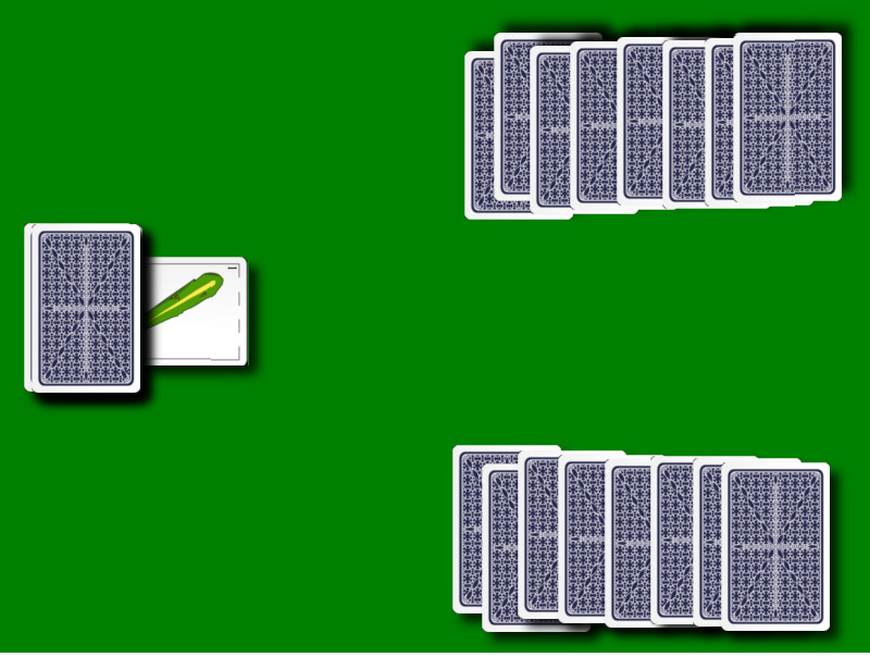 A distribution for tute habanero of two palyers with the trump crosswise.